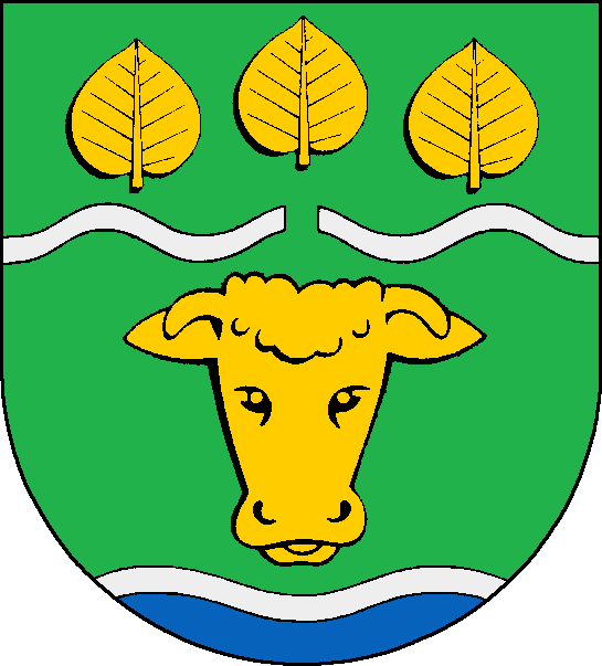 Coat of arms of the municipality Wittbek in Schleswig-Holstein, Germany.